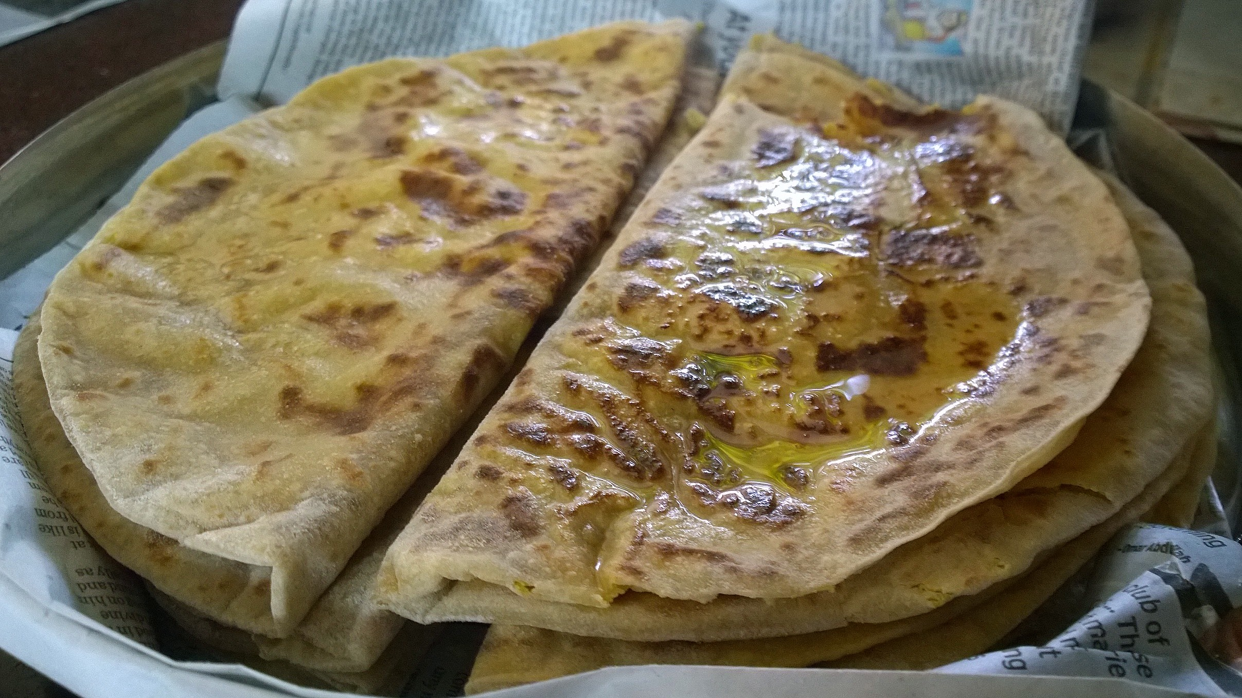 Authentic Maharashtrian delicacy prepared during almost every Maharashtrian festival , mostly used as Naivedya (food offered to a Hindu deity as part of a worship ritual, before eating it)